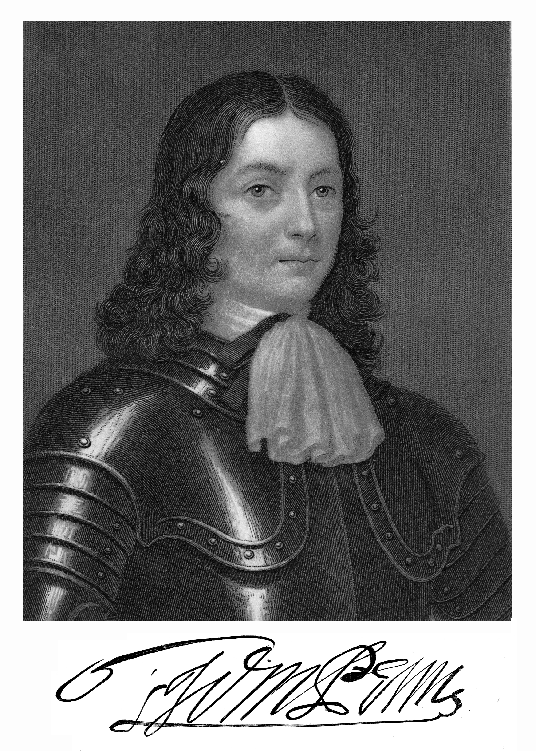 Portrait of William Penn in armour in 1666 at age 22 (Steel engraving with signature from a portrait by an unknown artist)